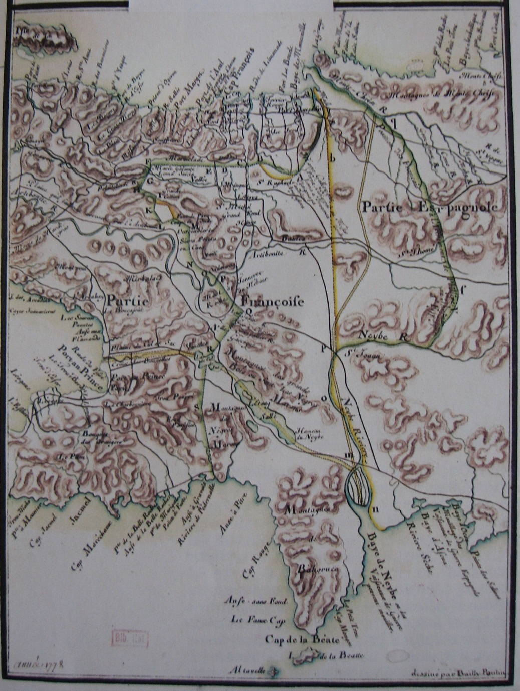 French map from 1778 showing the center section of the island of Hispaniola. The map focuses on the new border between the French part (Saint-Domingue, now Haiti) and the Spanish part of the island following the Treaty of Aranjuez signed the previous year. Spain gained the upper Artibonite Valley in the north, pushing deep inside the French part.